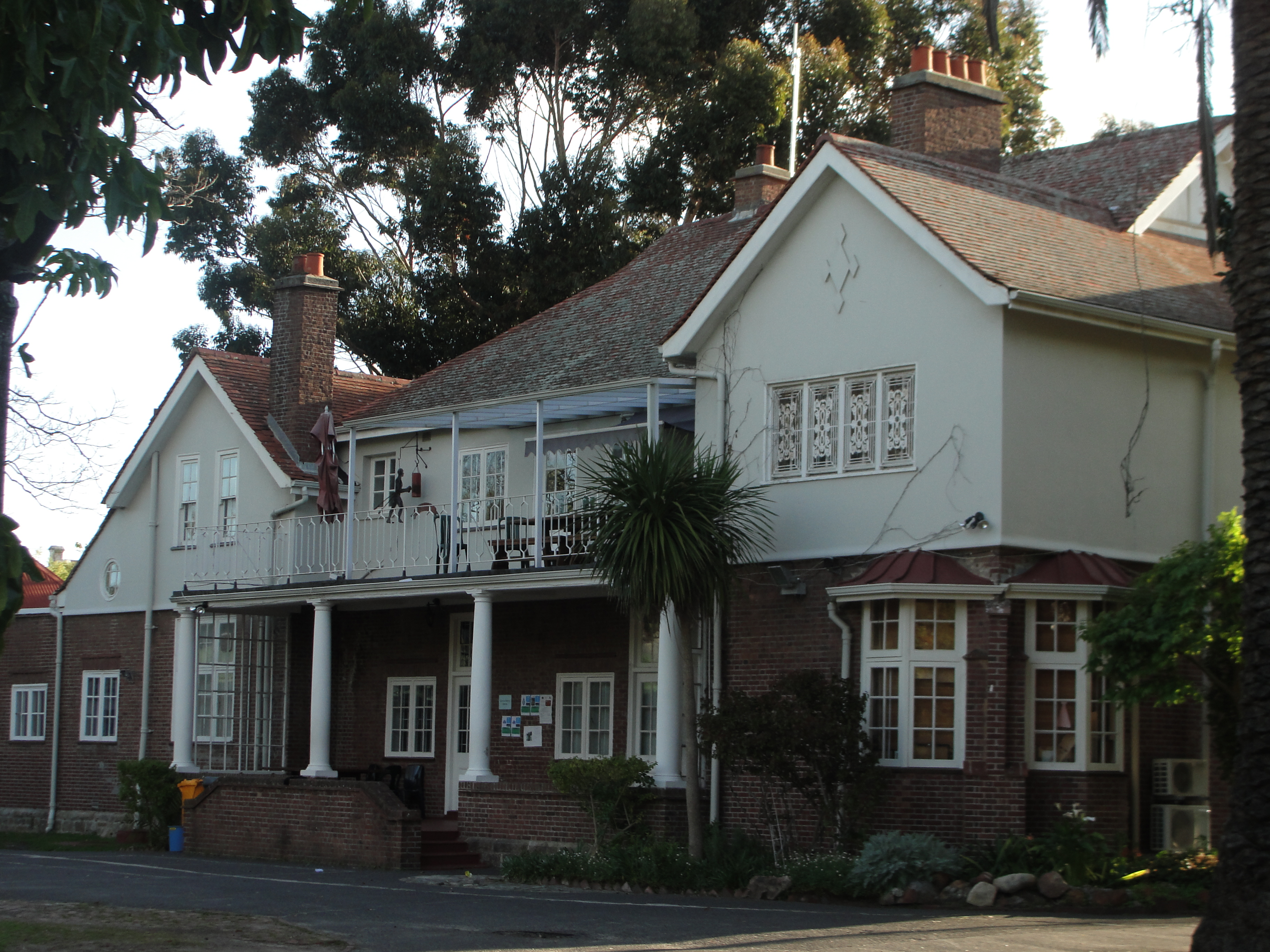 Ascot House, 5 Ascot Road, Kenilworth, Cape Town. Current use: Cedar House school. This media shows a South African Protected Site with SAHRA file reference 9/2/111/0074 .